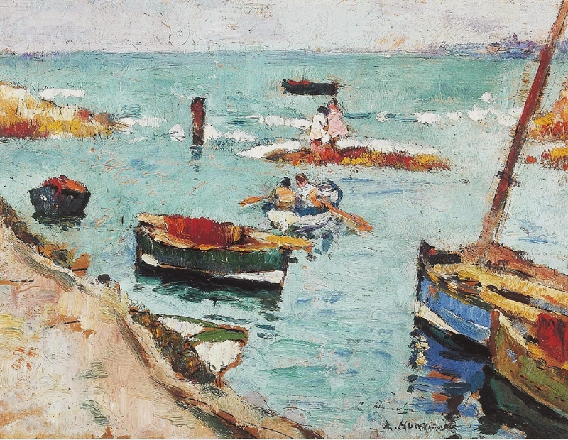 George Leslie Hunter - Boats, Lower Largo - Oil on board - 10 x 14 ins